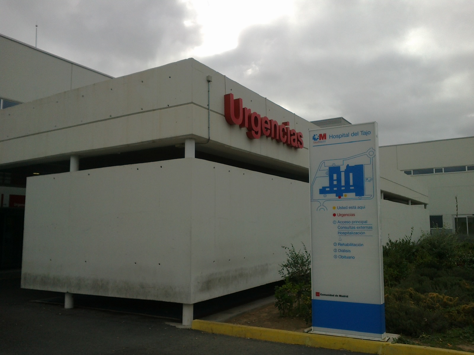 Tagus Hospital (Aranjuez, Madrid, Spain)